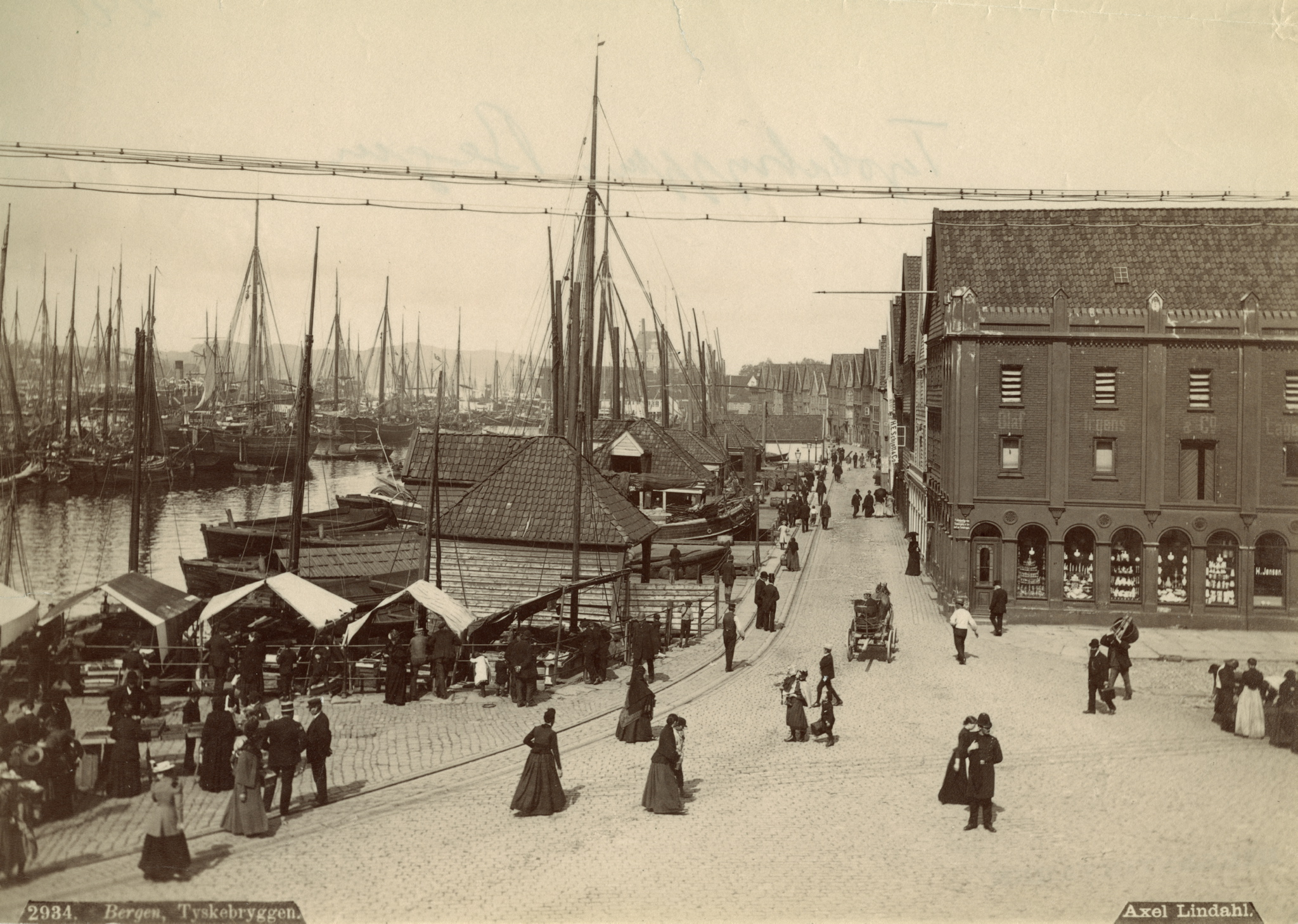 Bryggen i Bergen, Tyskebryggen No. 2934 Fotograf: Axel Lindahl (1841–1906) Alternative namesAxel Theodor LindahlDescriptionSwedish photographerDate of birth/death27 July 184111 December 1906Location of birthMariestadWork locationSweden & NorwayAuthority control : Q792251 VIAF: 73659895 ISNI: 0000 0000 4750 2770 LCCN: no2008043849 SELIBR: 404706 BNF: 16626912c WorldCat Datering: Kommentar: mellom 1884 og 1901 (se disk.side.) Sted: Bergen Hordaland Se flere bilder på Kulturminnebilder